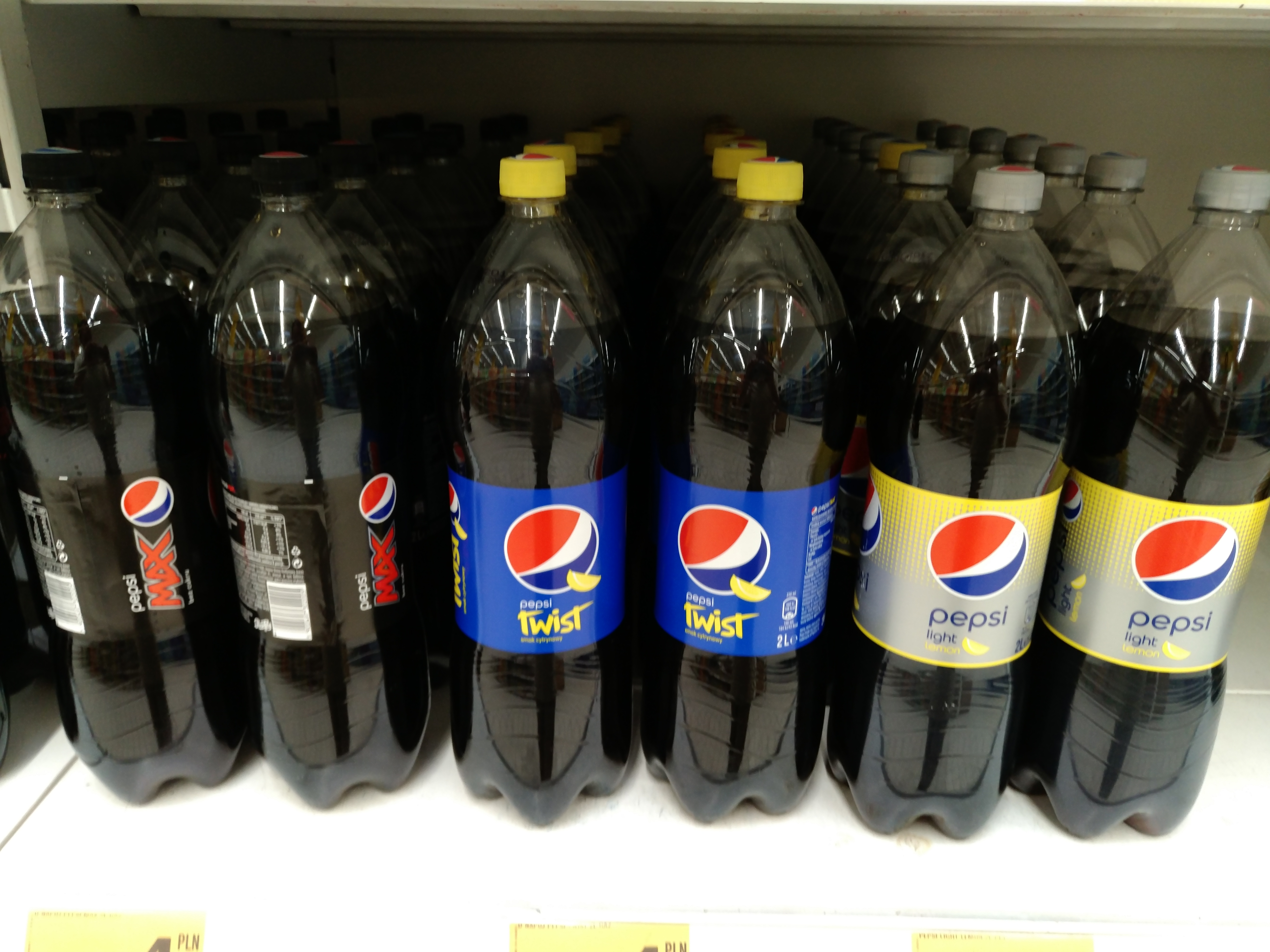 Various types of Pepsi